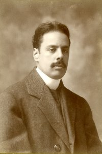 Henrique Jardim de Vilhena (1879-1958).